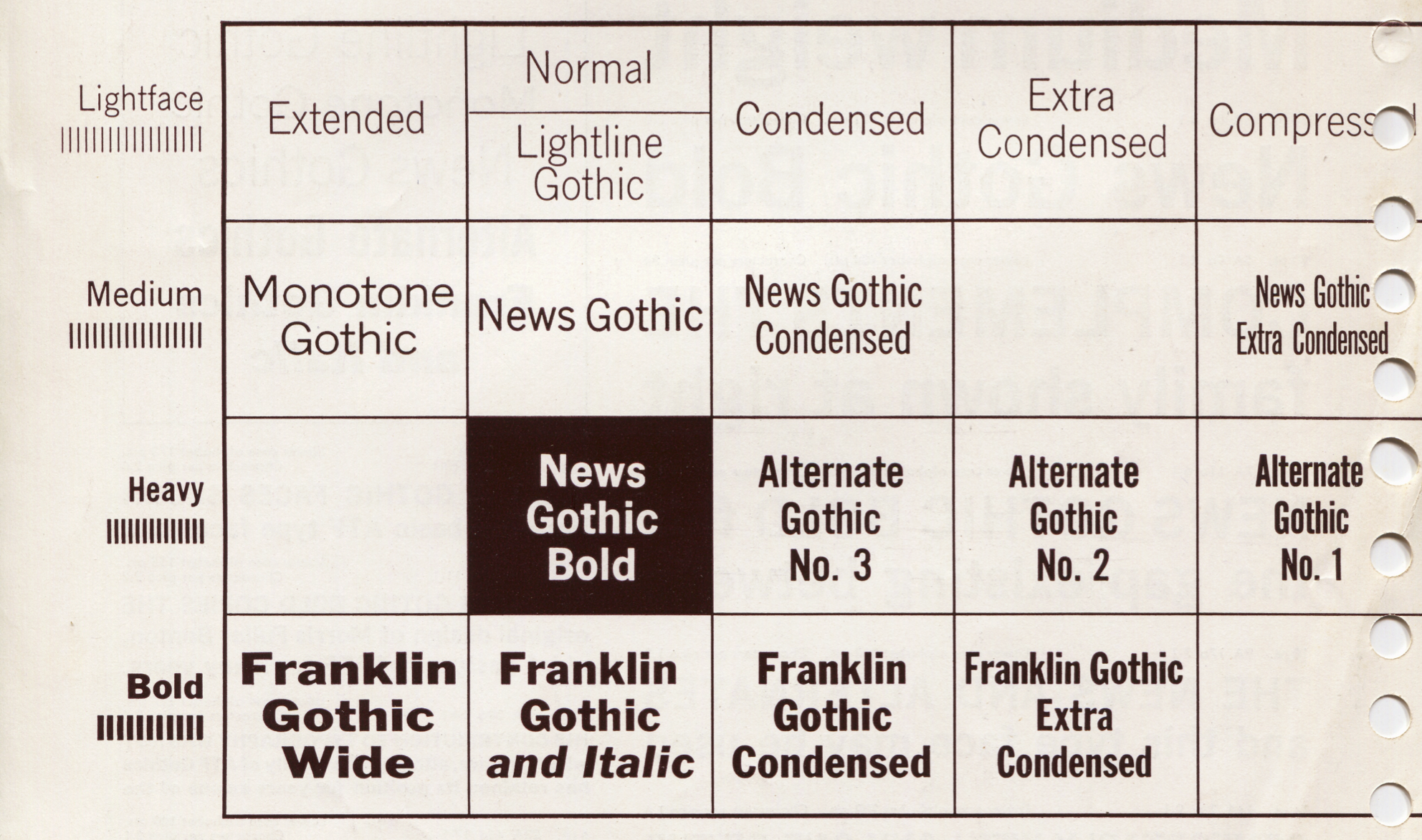 ATF's set of 'gothic' (sans-serif) fonts are confusingly named since they weren't designed as a complete family in the modern manner. A table from a guide trying to explain the names used.